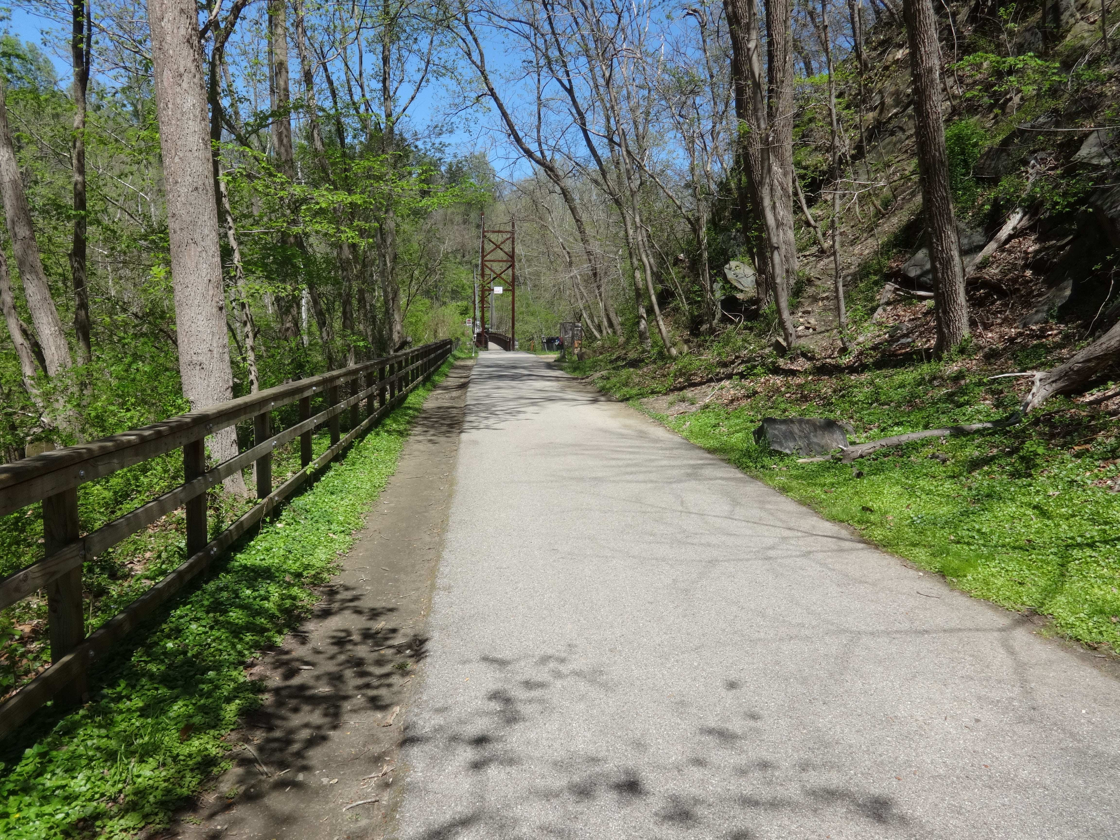 Grist Mill Walking Bridge, Avalon Area, Patapsco Valley State Park, Baltimore County and Howard County, Maryland.